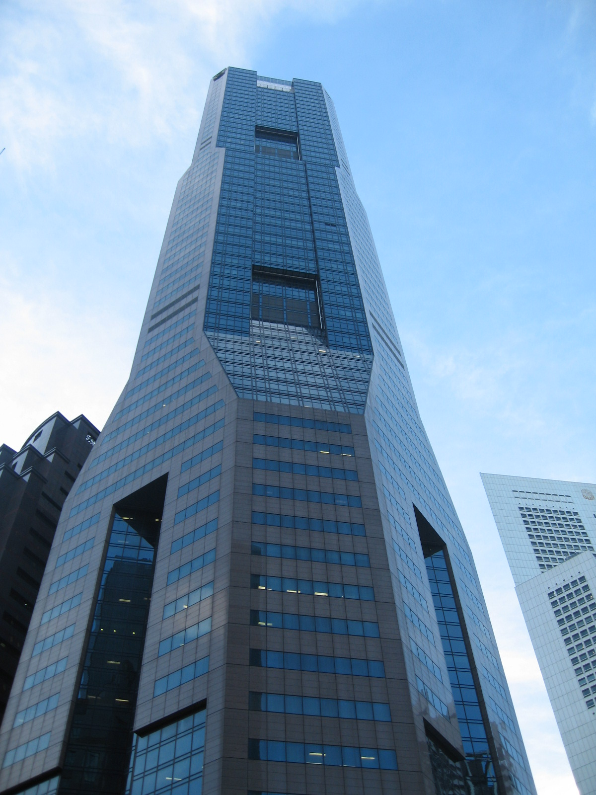 Republic Plaza.